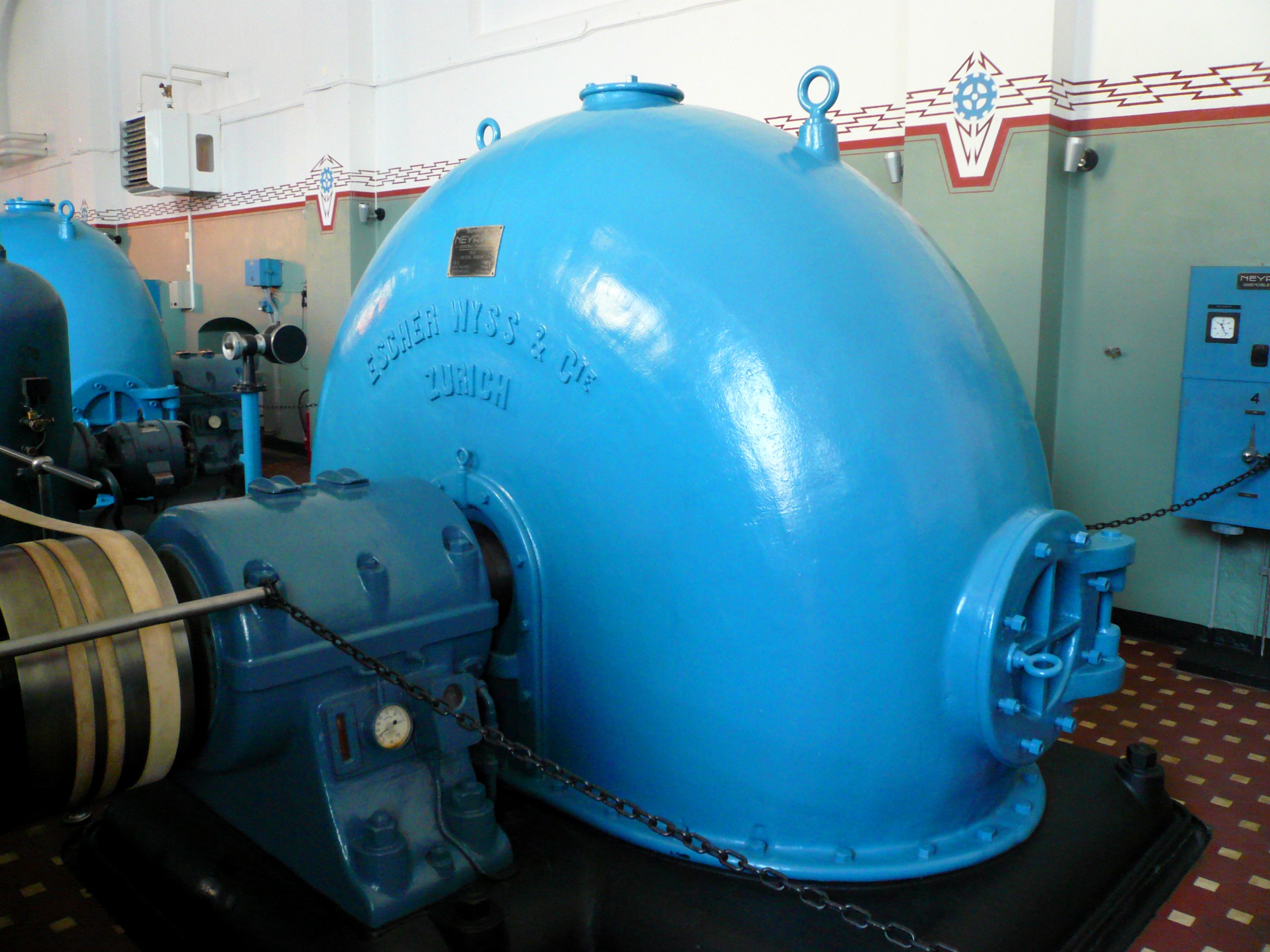 Tyssedal